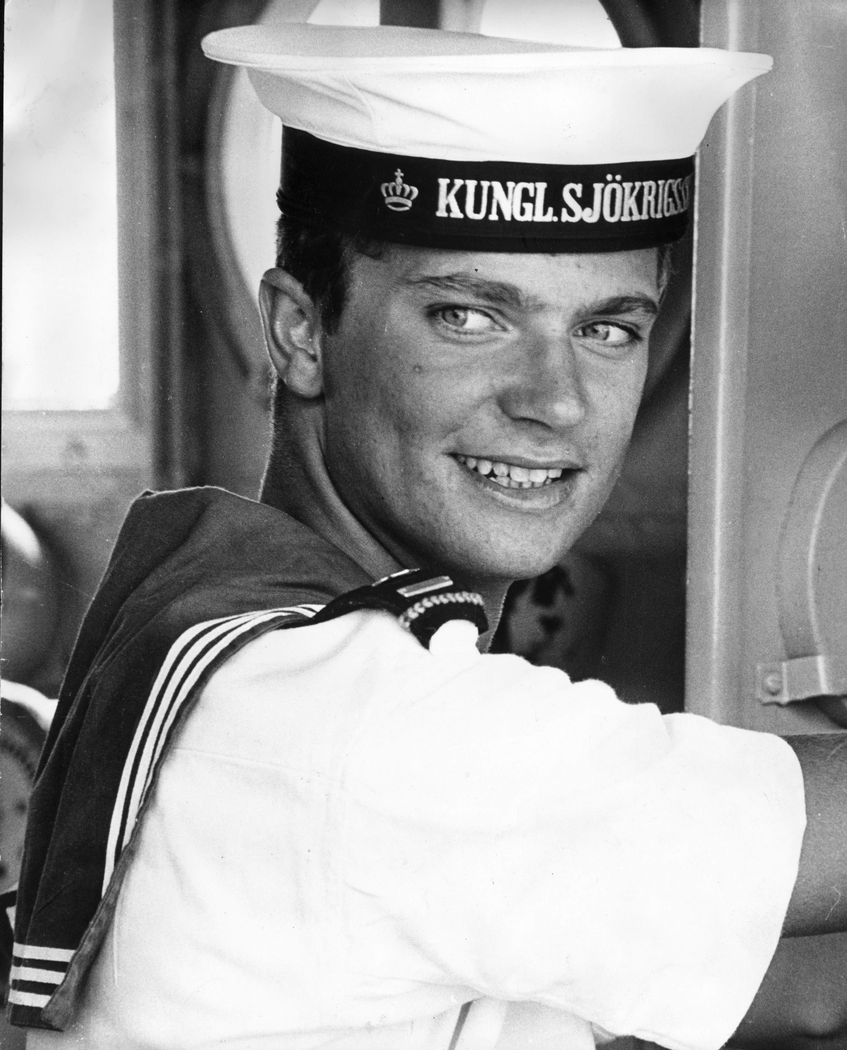 HRH the Prince Karl Gustaf Folke Hubertus Bernadotte, Duke of Jämtland, later Crown Prince and King of Sweden as HM Karl XVI Gustaf, during his military service at the Royal Swedish Naval Academy.